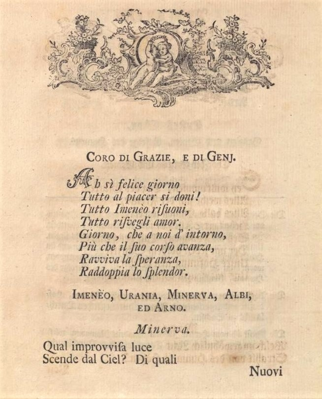 First page for the libretto for La Reggia d'Imenèo, performed at the Opernhaus am Zwinger, Dresden, 21 October 1787. It was published the same year by the Kurfürstliche Hofdruckerey (Royal Press of Saxony)